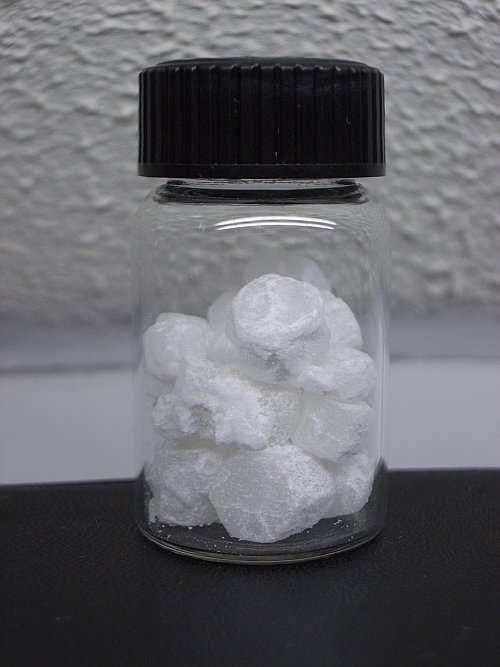 Sodium sulfate, hydrated